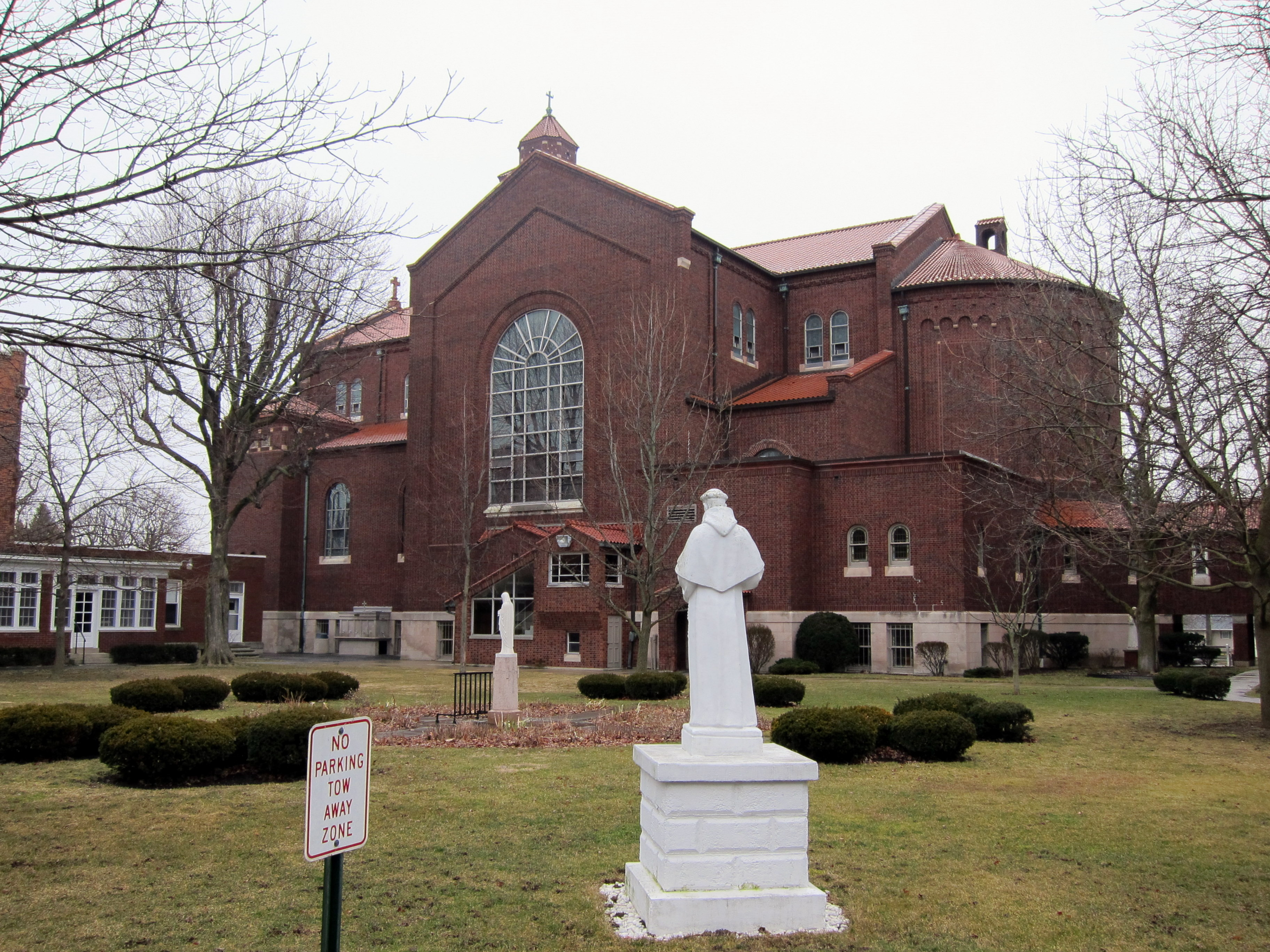 Our Lady of Consolation (Carey, Ohio), exterior, courtyard